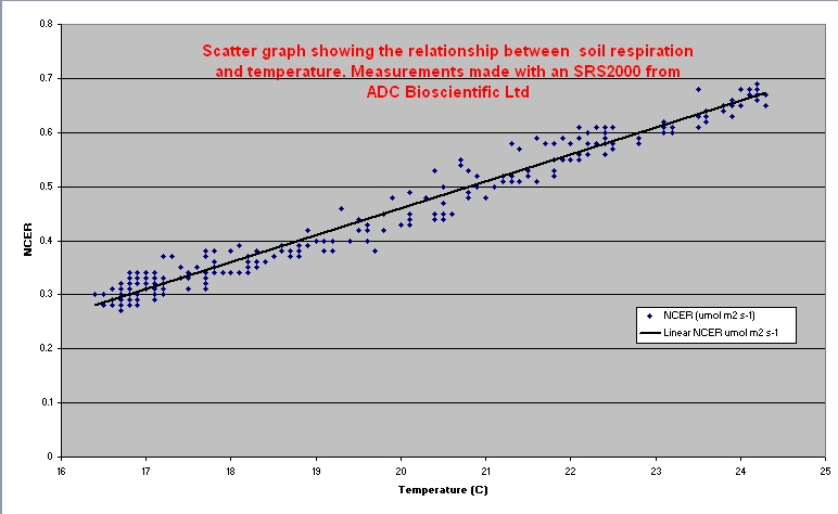 graph showing increase of soil respiration with increase in temperature. data taked with SRS2000 by ADC Bioscientific Ltd